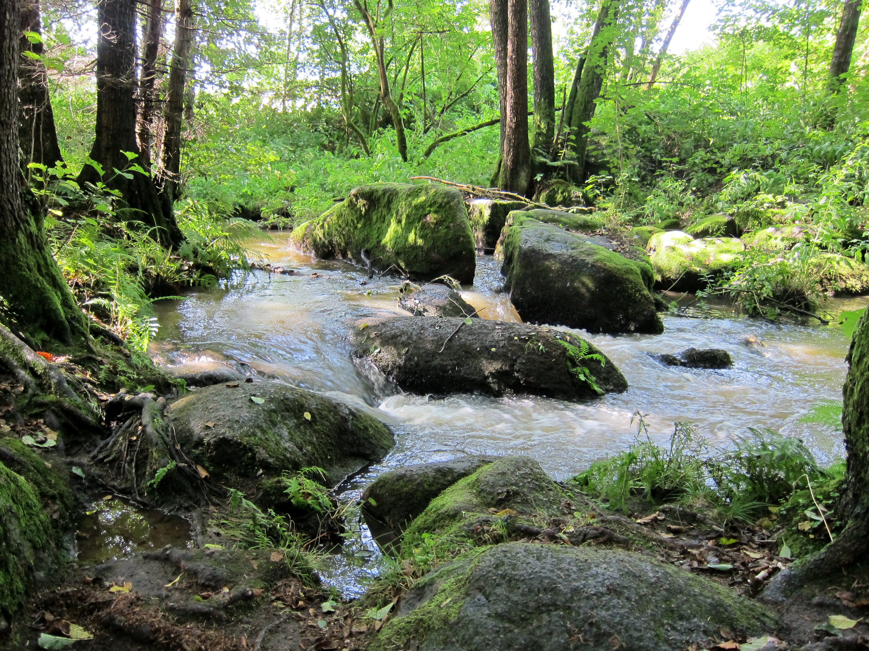 Nature reserve Hölle in Bavaria